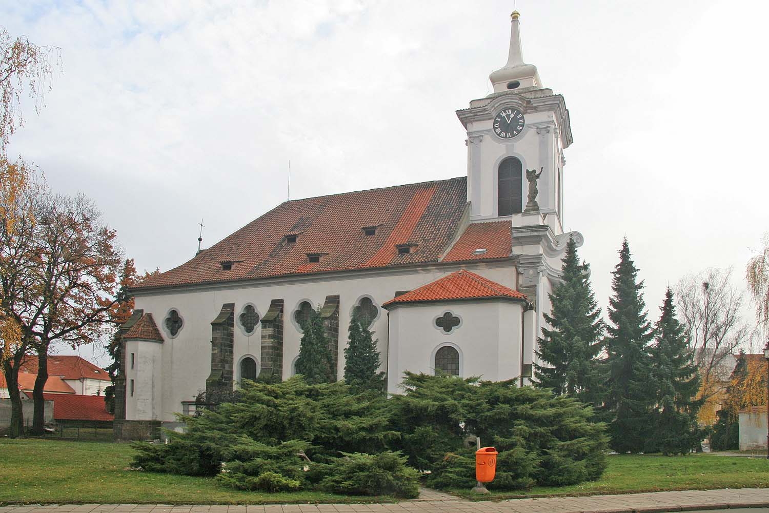 Saint Gotthard church in town square of Český Brod, Kolín District, Czech Republic autor: Prazak date: 17. 11. 2006